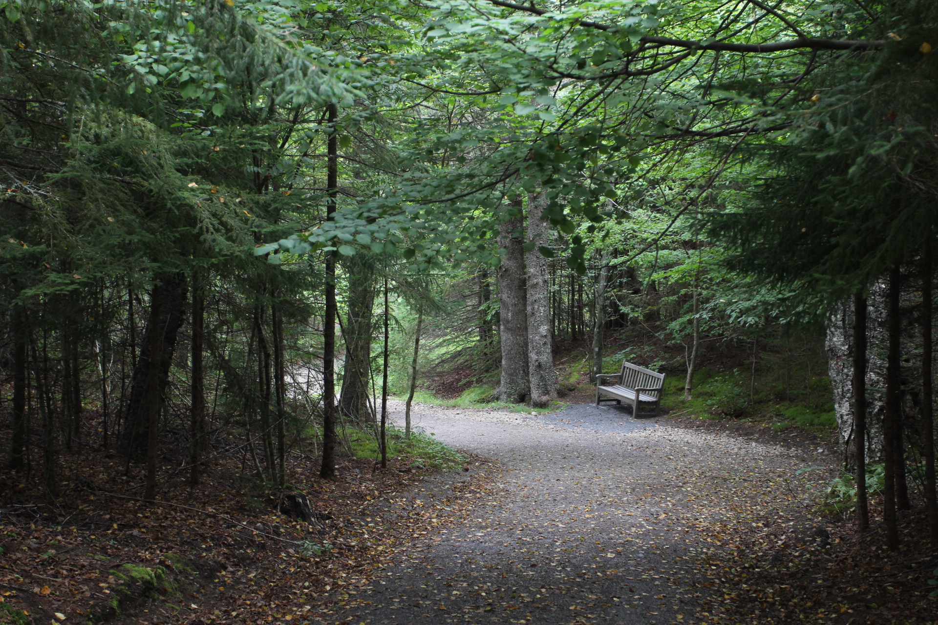 Roosevelt Campobello International Park / Parc international Roosevelt de Campobello